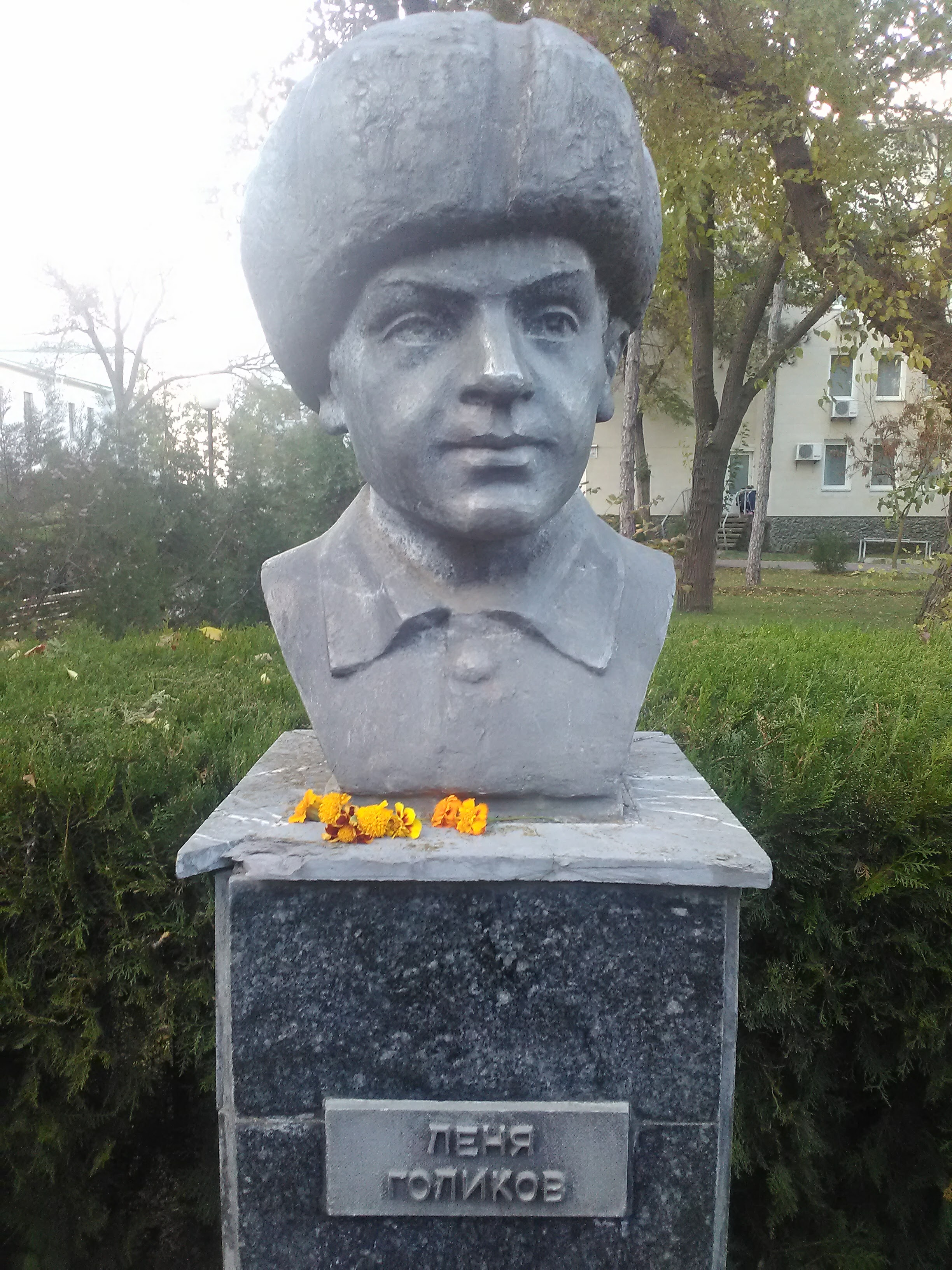 Golikov, Leonid, a pioneer-hero, Hero of the Soviet Union. The monument is located in the Republic of Crimea, the city of Yevpatoria, Mayakovsky Street Building 2 (Gold Coast resort, a former summer camp Gold Coast)